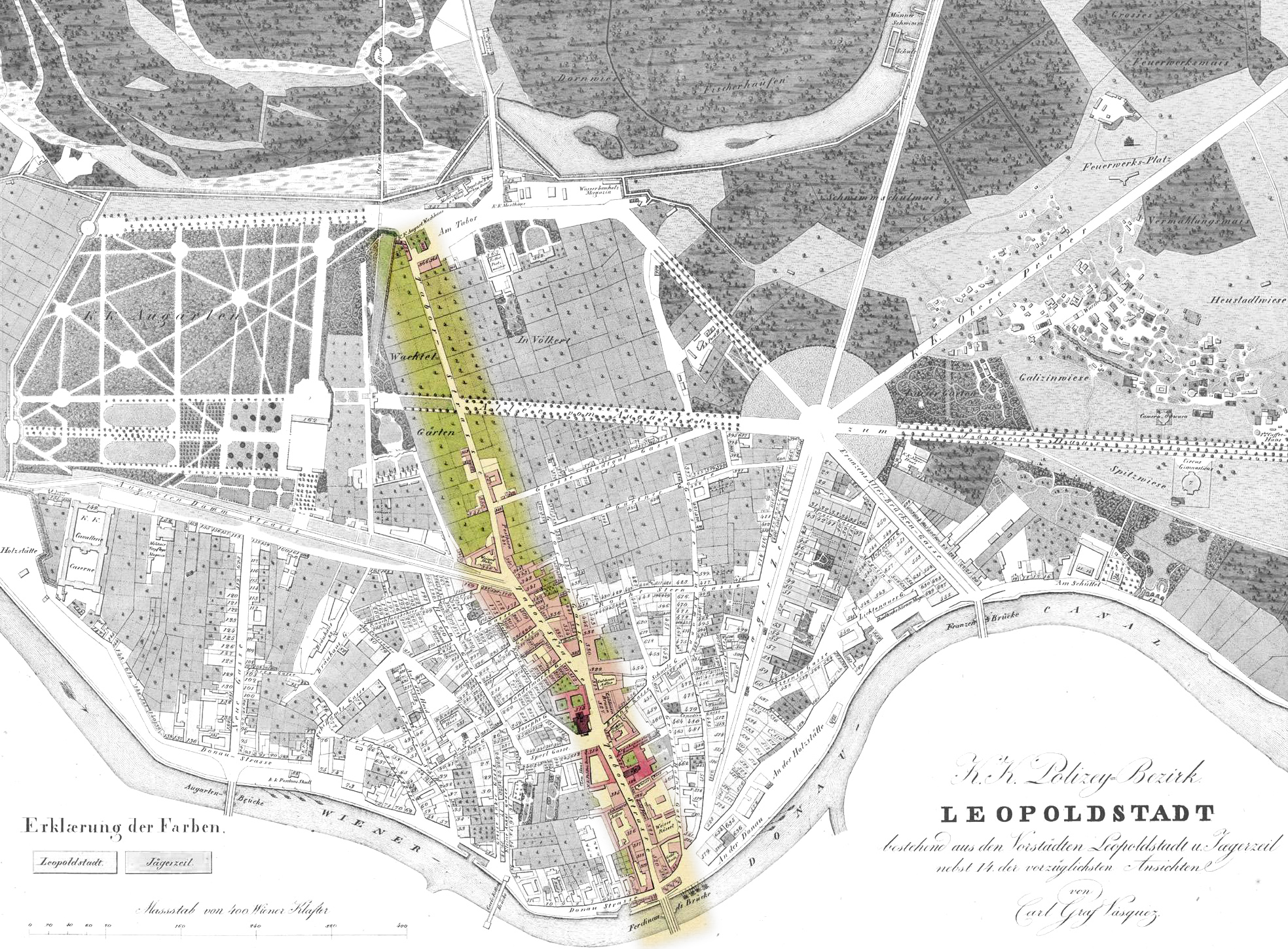 Map of Vienna / Taborstraße, approx. 1830